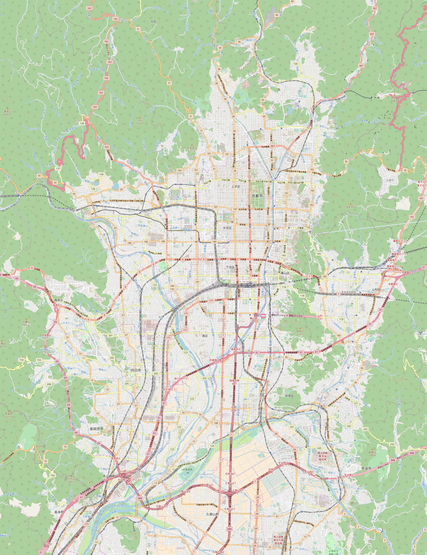 This map of Kyoto was created from OpenStreetMap project data, collected by the community. This map may be incomplete, and may contain errors. Don't rely solely on it for navigation.